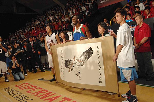 Support of campaigns-Souvenir to Kobe Bryant 2007